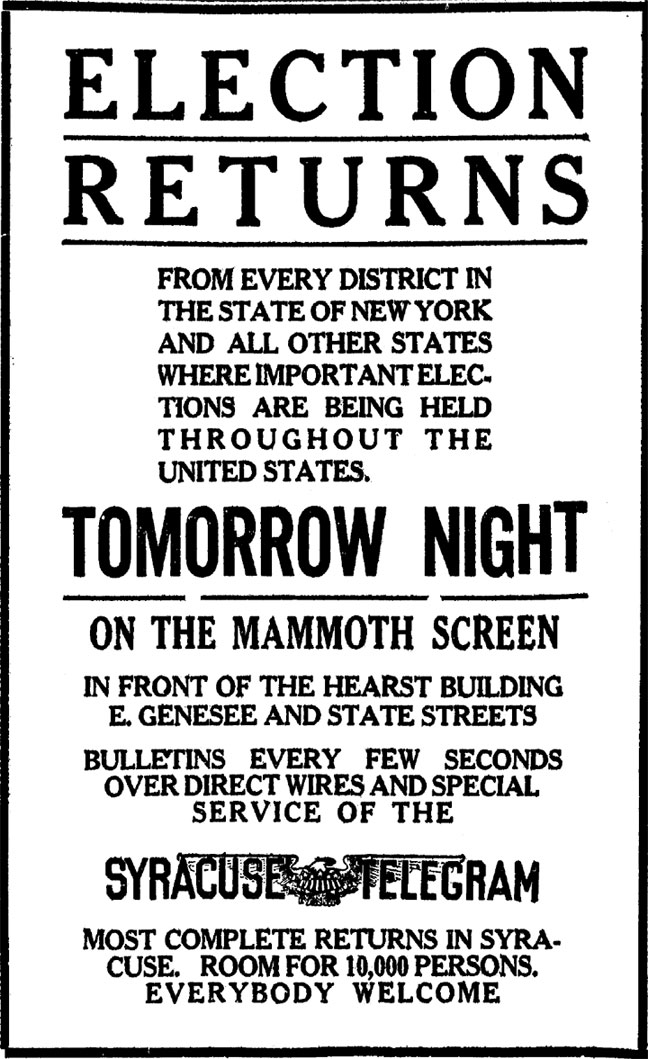 Election night at the Syracuse Telegram, publisher, William Randolph Hearst